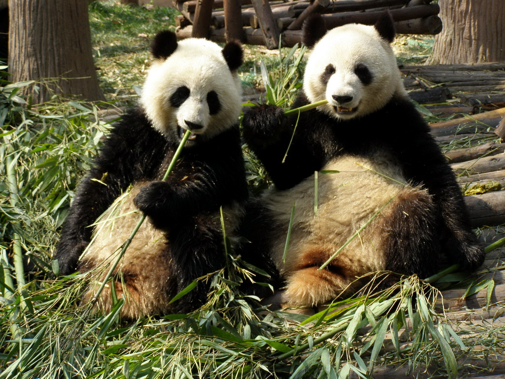 Giant pandas eating bamboo at Chengdu Research Base of Giant Panda Breeding. Showing they can hold the food with their hands.